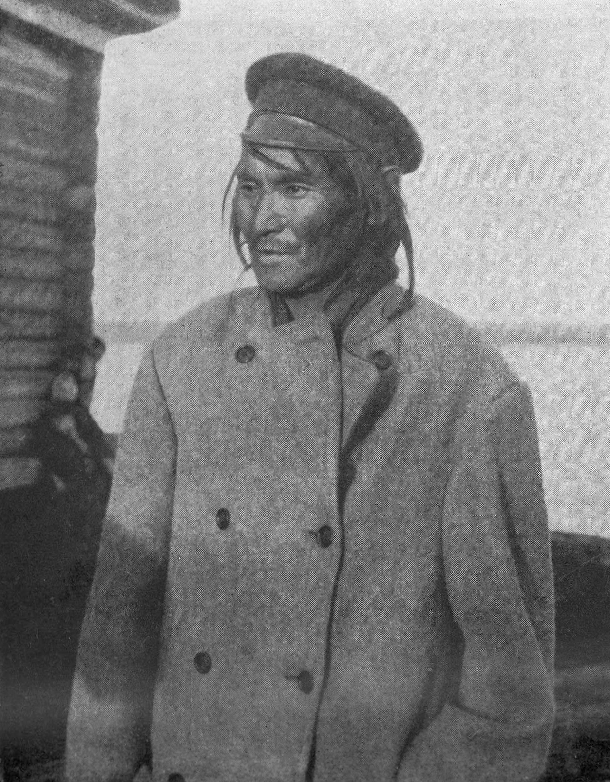 1913 photograph of a Tungus man at the Imperial Russian settlement of Vorogovo, Krasnoyarsk Krai. Caption says "Drunken Tungus at Vorogovo (Sept. 17th)".